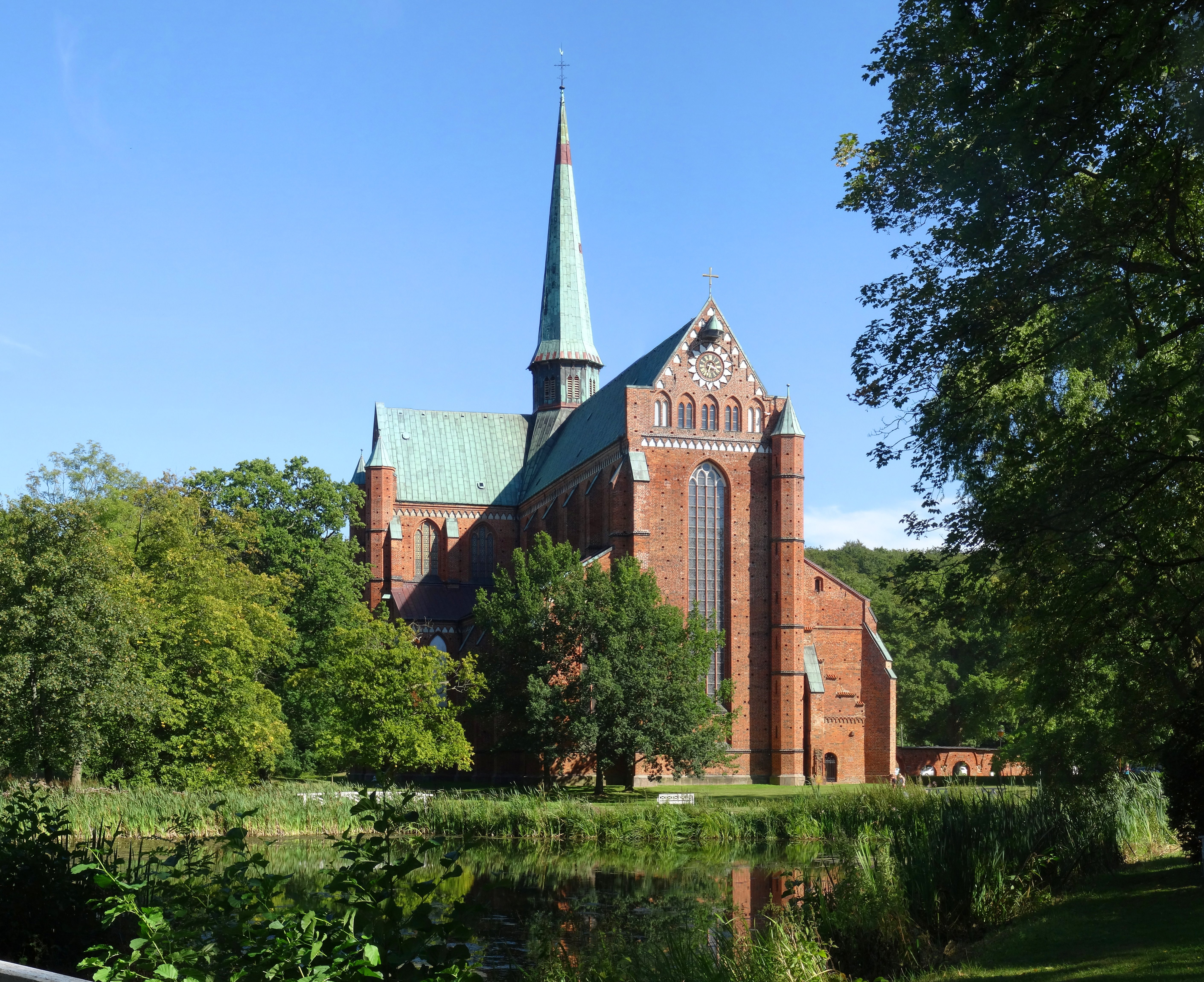 This image shows the Doberan Minster. The cathedral is one of the most important Gothic brick buildings in Germany. There is no other original Cistercian church in Europe.